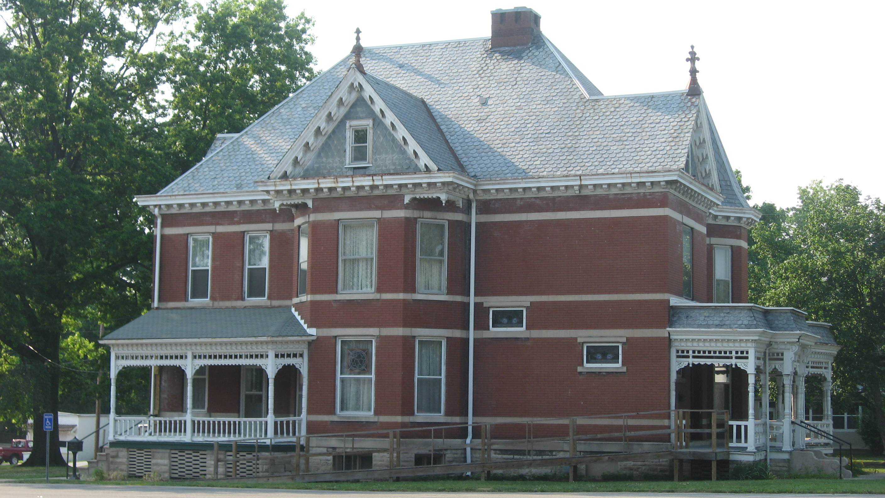 Side of the George H. Vehslage House, located at 515 N. Chestnut Street in Seymour, Indiana, United States. Built in 1894, it is listed on the National Register of Historic Places.